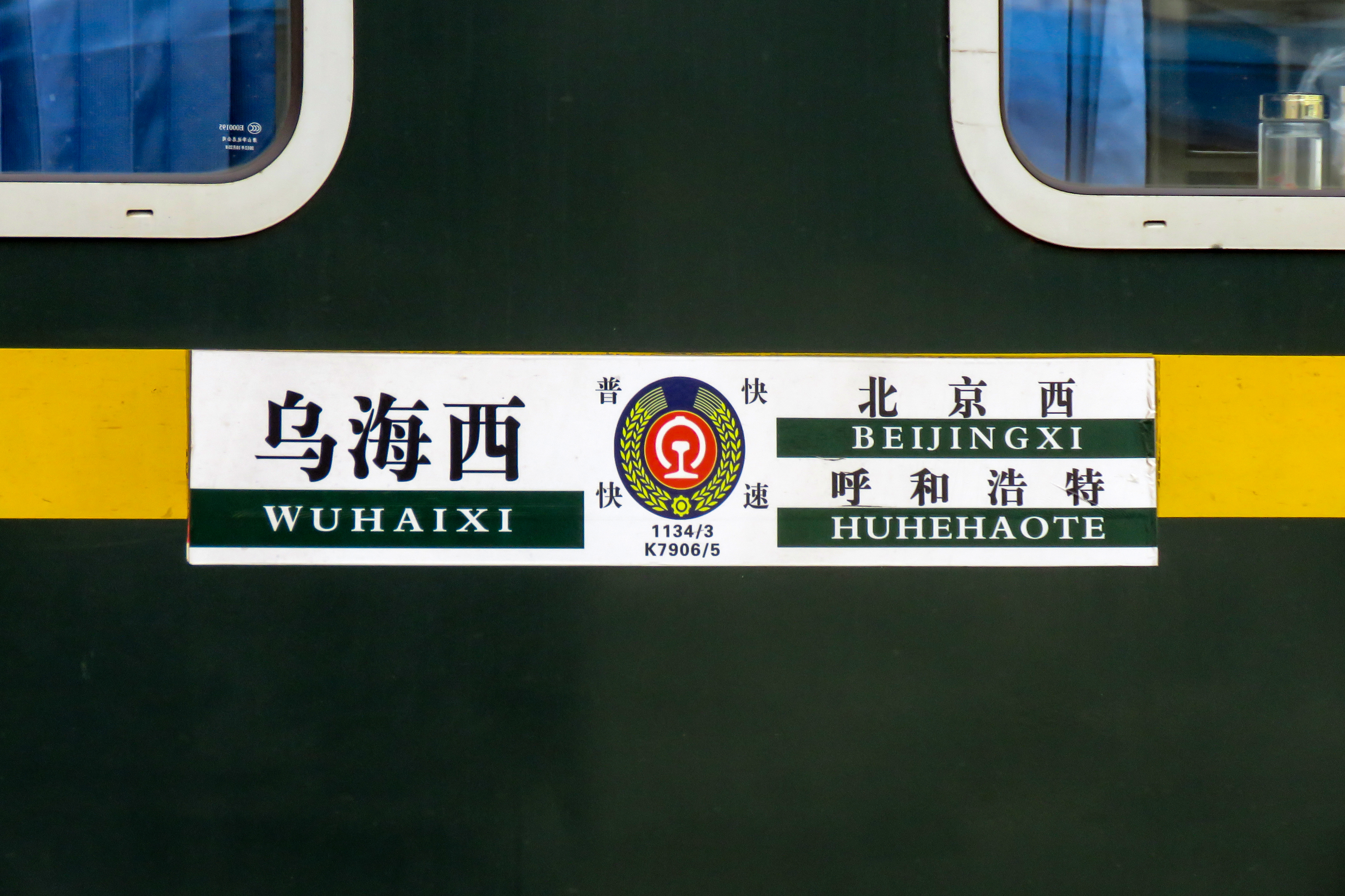 No longer serves Tianjin...